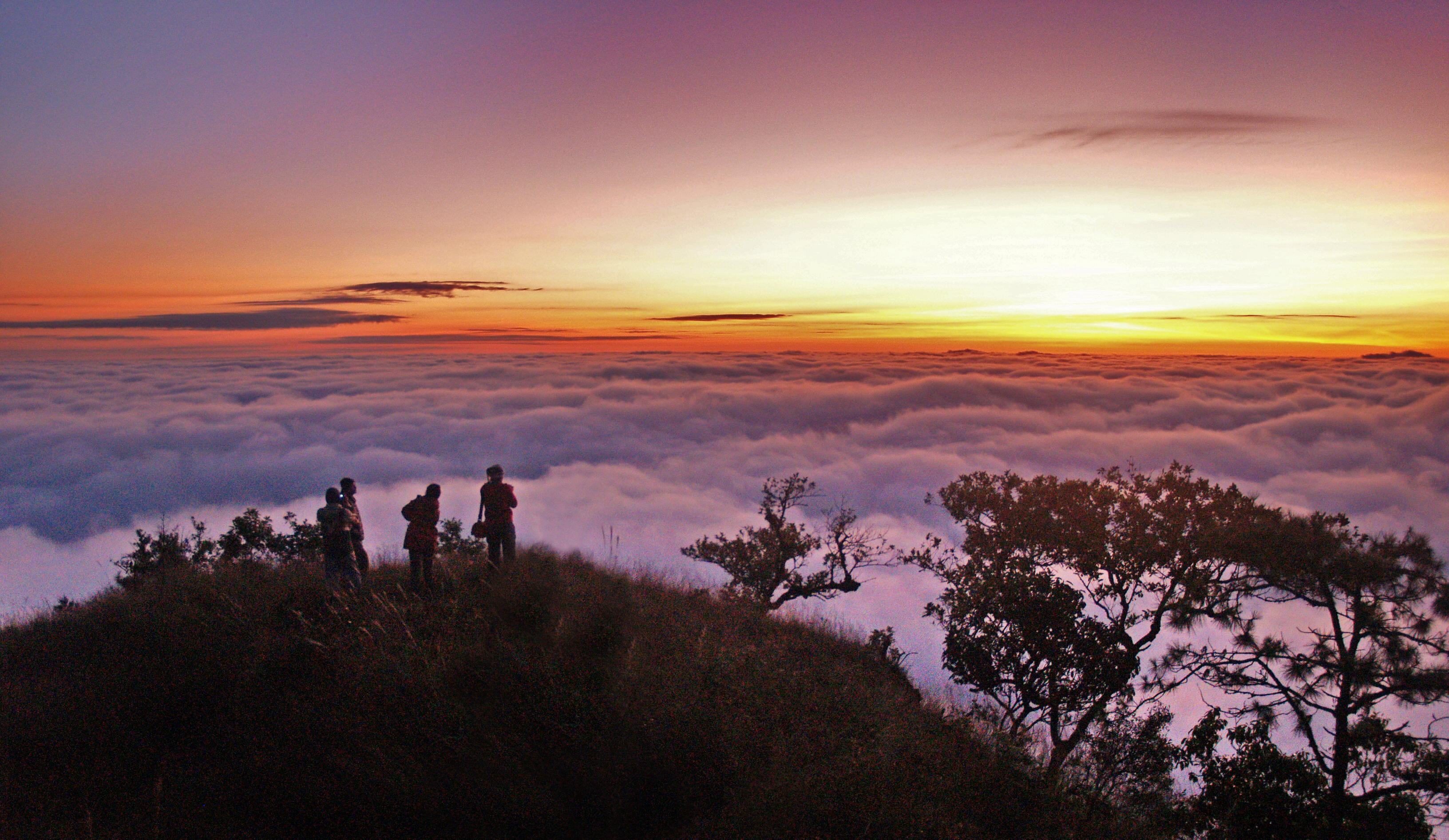 Sea of clouds at Doi Langka Noi and Doi Langka Luang, Khun Chae National Park, Chiang Rai Province